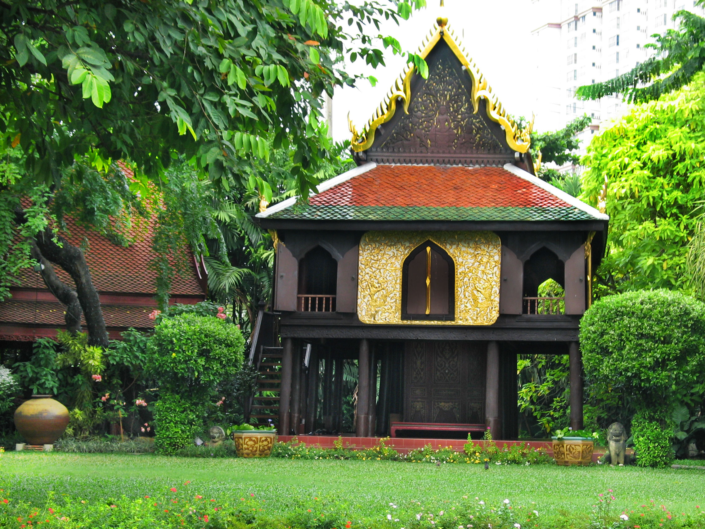 Lacquer Pavillon and gardens, in Suan Pakkad Palace, Bangkok, Thailand.